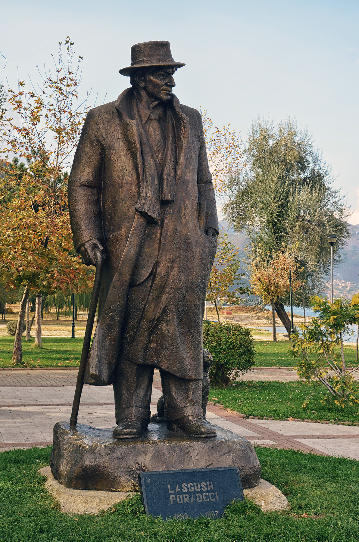 The statue of Lasgush Poradeci on the lakeside promenade of Pogradec, Albania